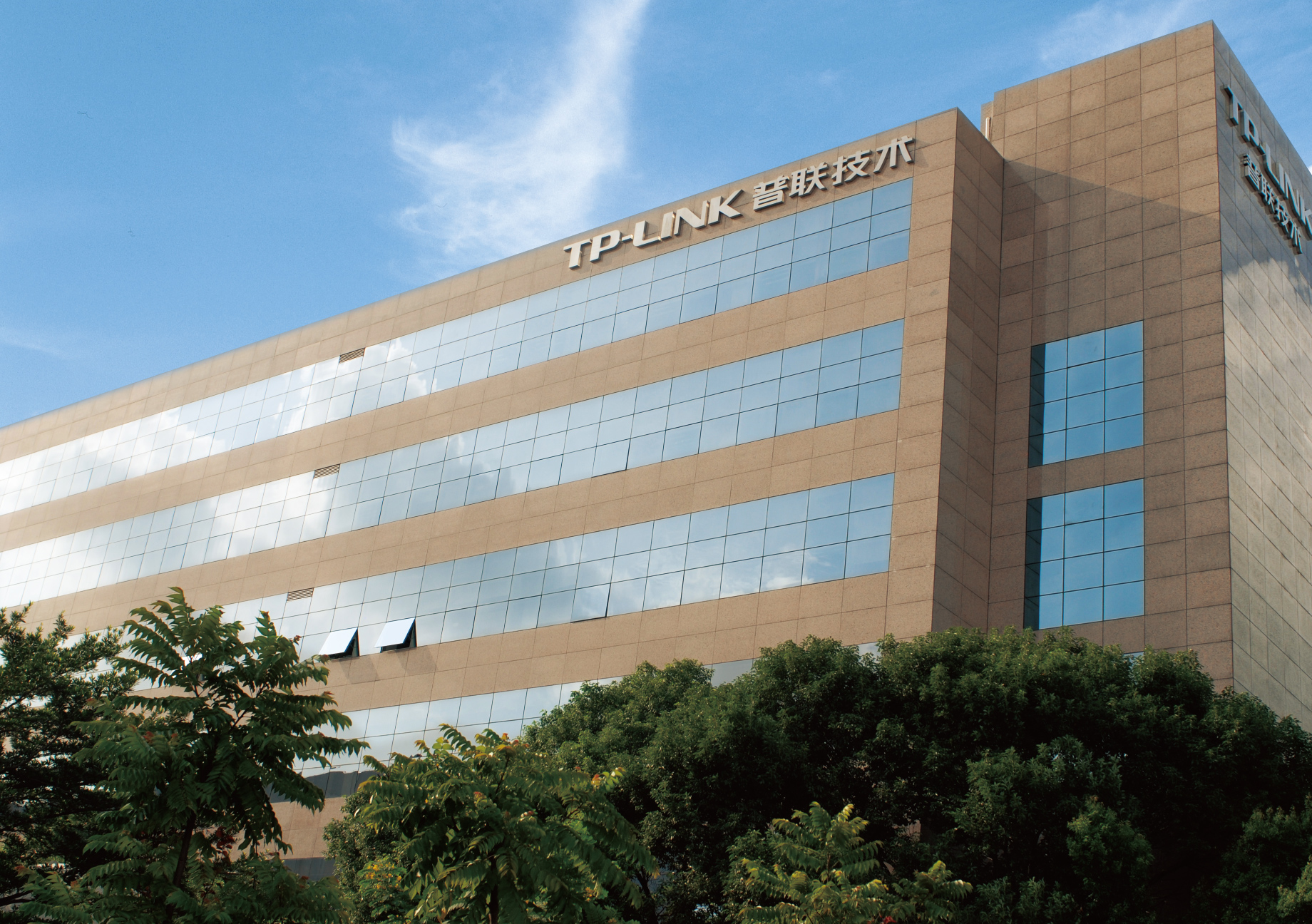 TP-LINK Global Headquarters in Shenzhen, China